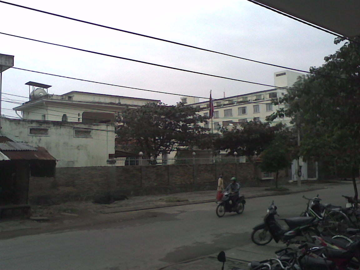 Laos has a mission in Danang